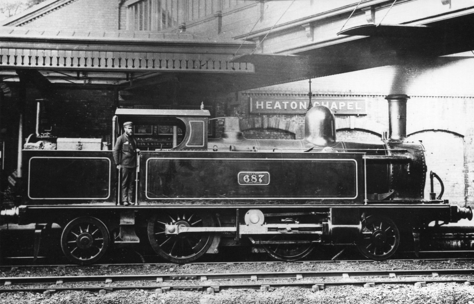 Photograph of LNWR engine No. 687